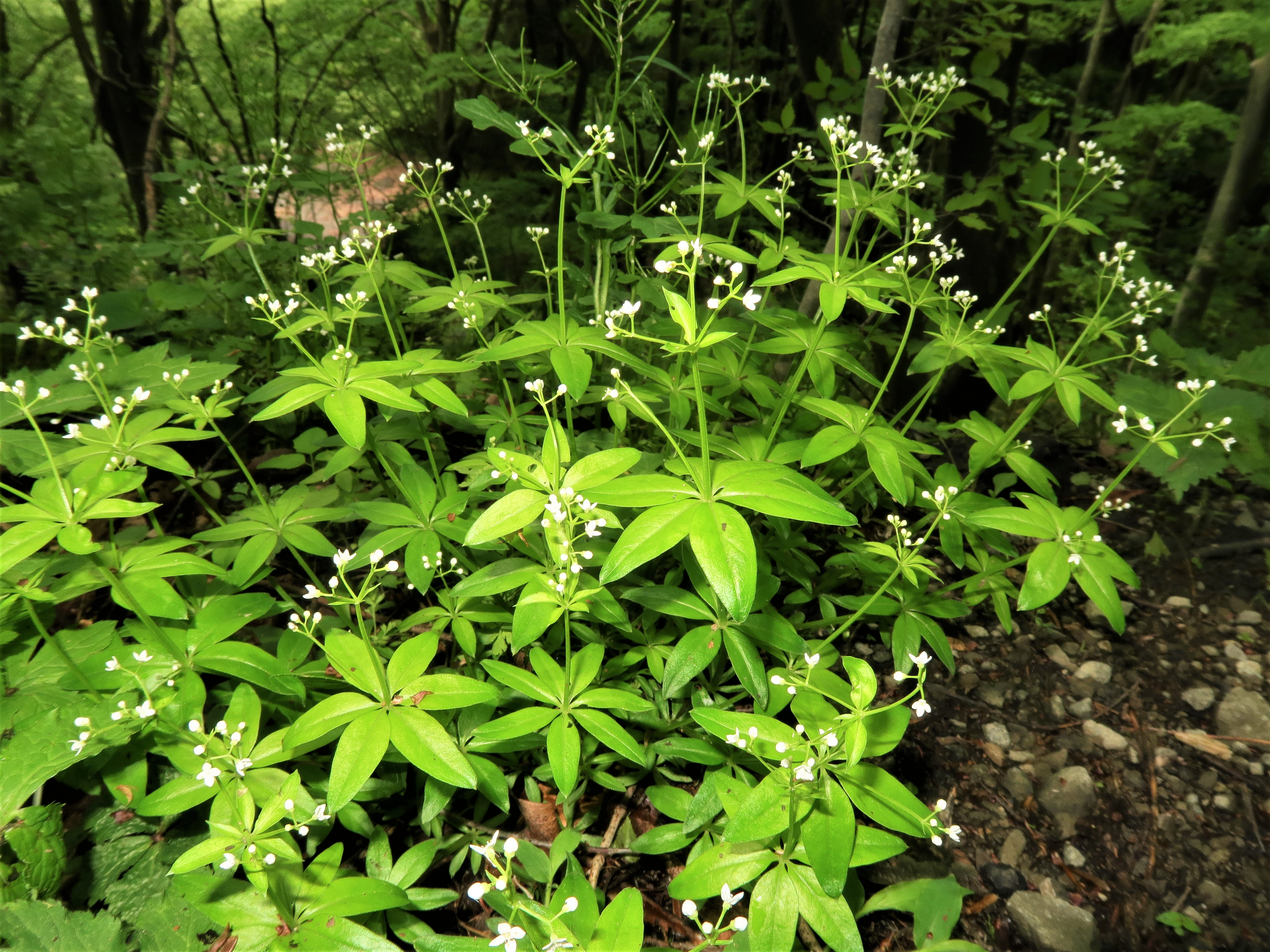 Galium japonicum , Naka-dori area, Fukushima pref., Japan